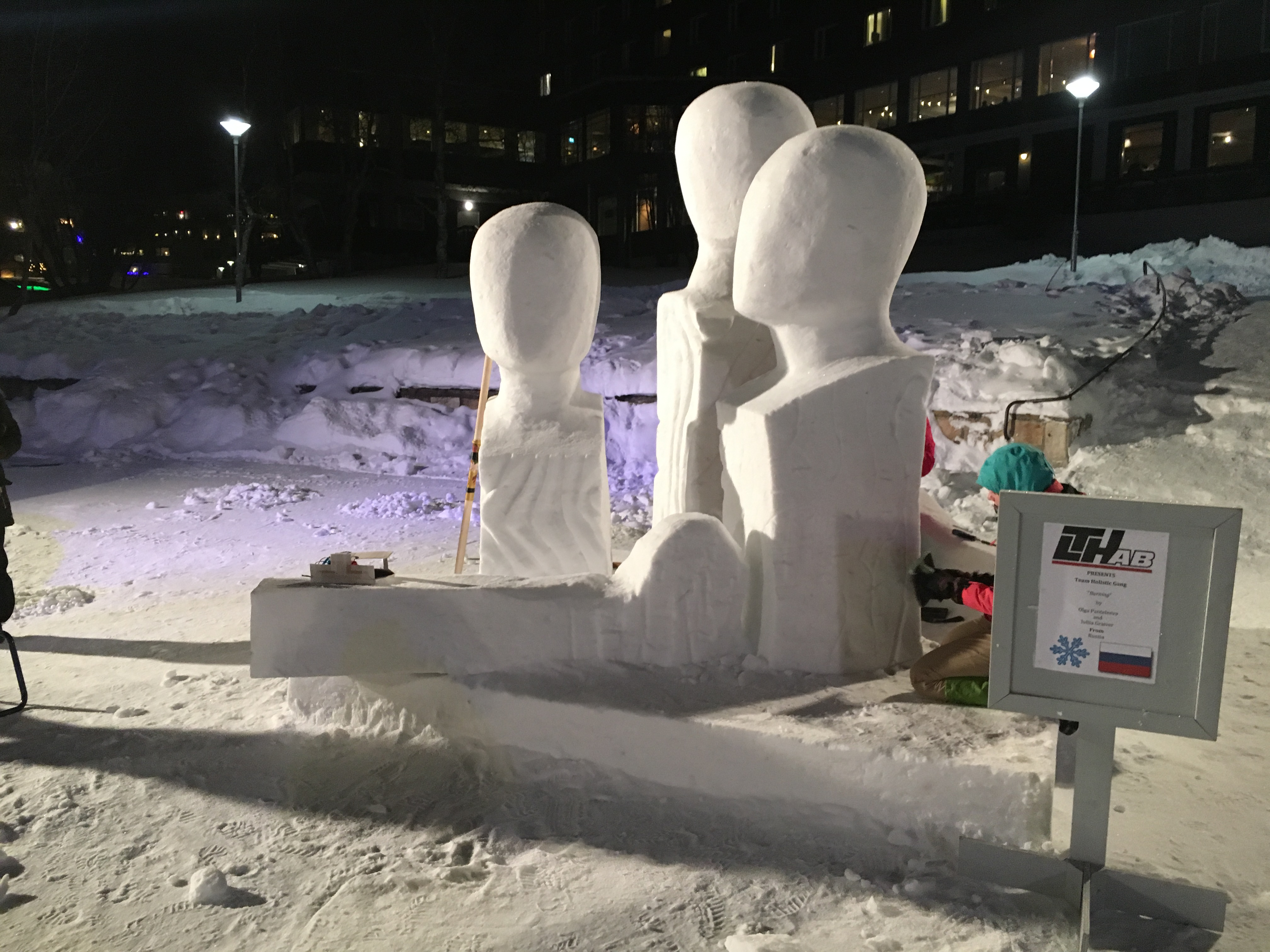 The russian art team "Holistic Gang" working with their sculpture "Burning" during Kiruna Snow Festival Kiruna International Snow Sculpture Competition 2020